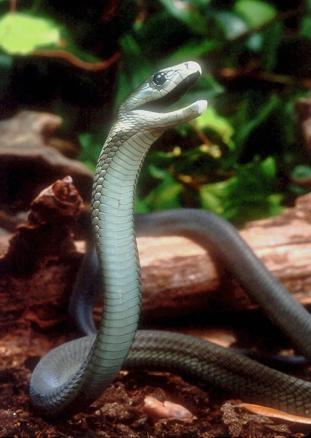 Black mamba in defensive posture, photo taken by Bill Love, Blue Chameleon Ventures